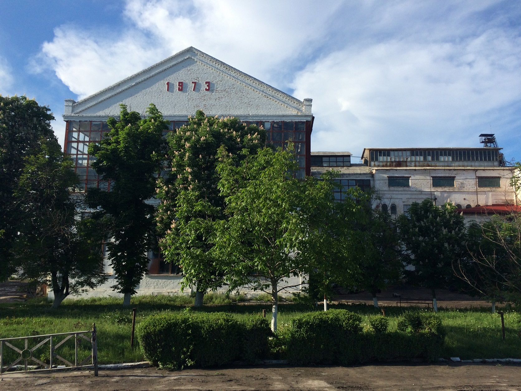 Building of Illintsi sugar factory